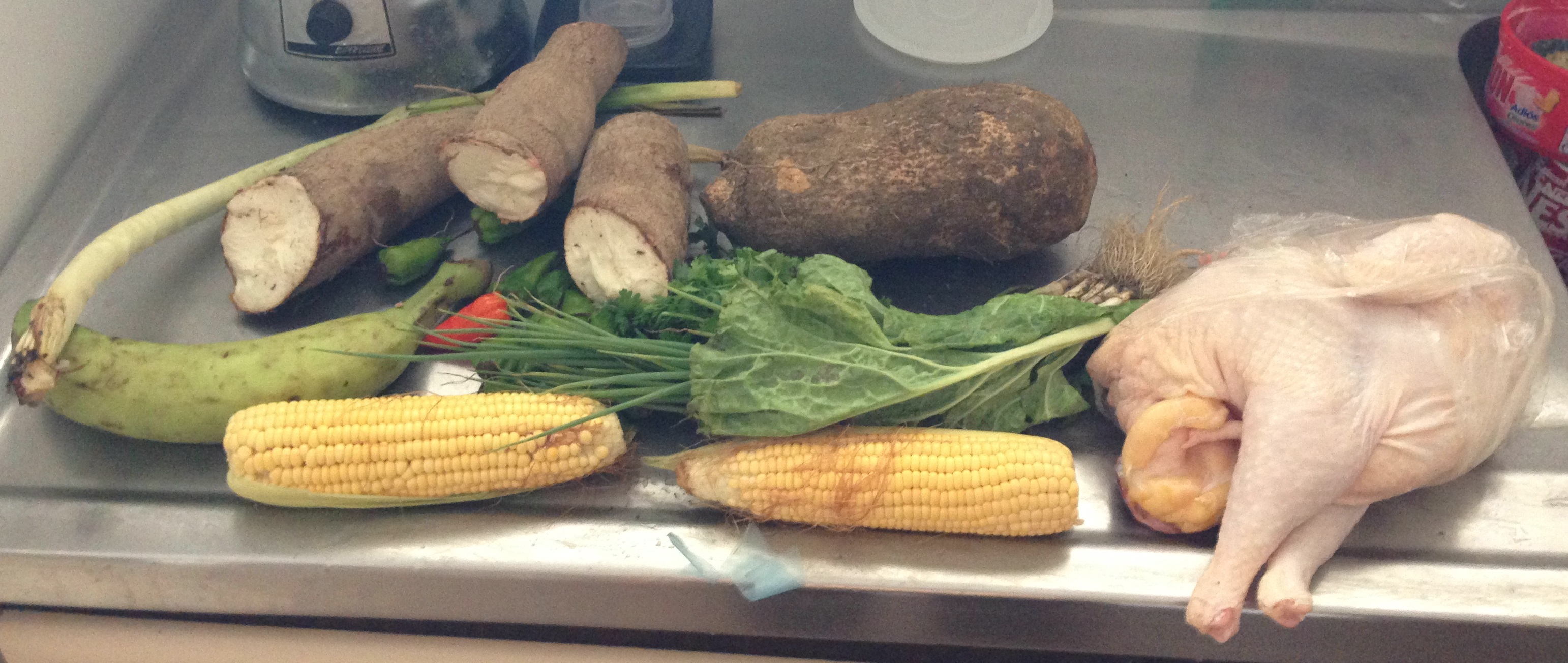 Sancocho de gallina